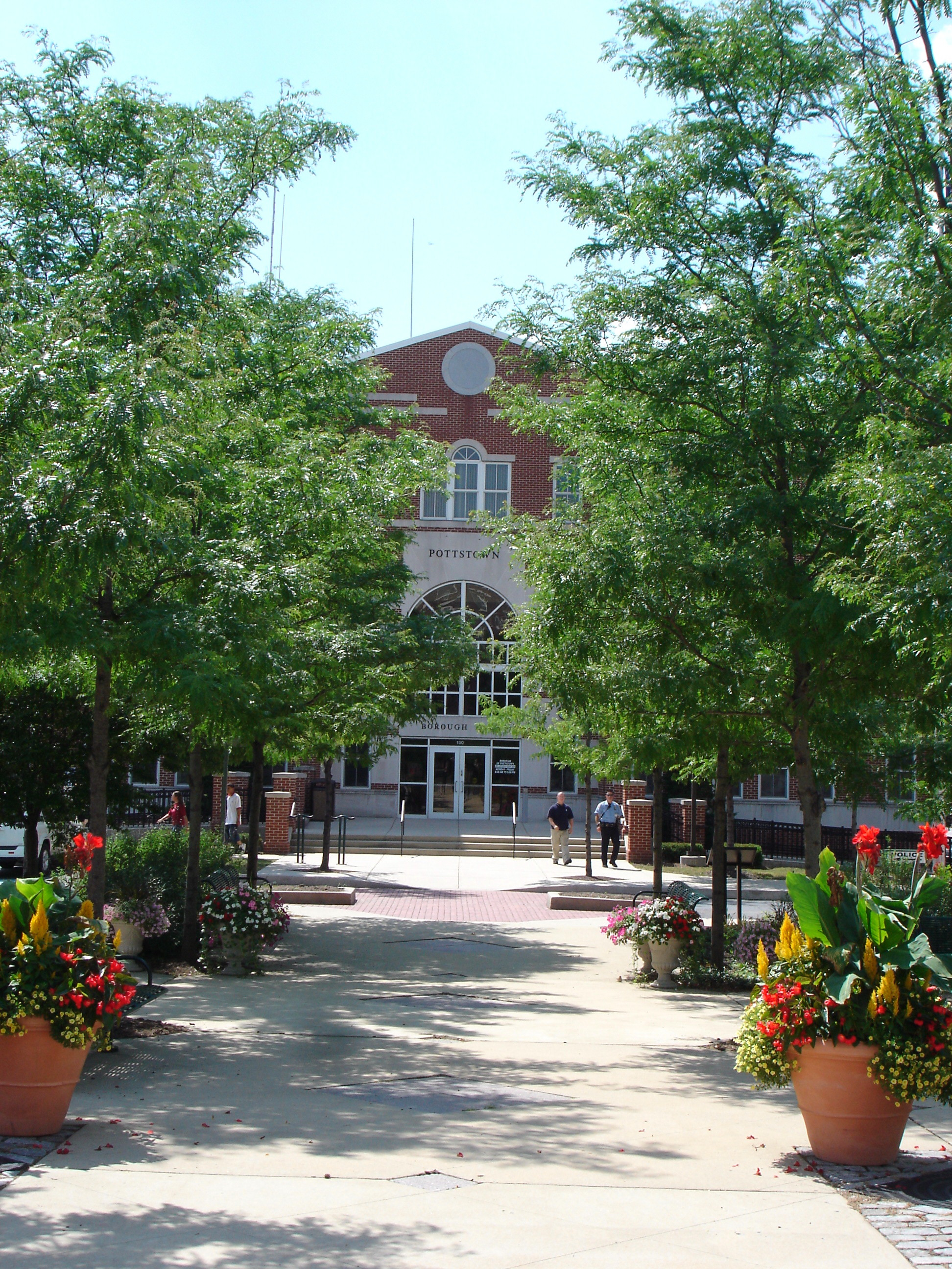 Pottstown, PA Borough Hall viewed from adjacent park.